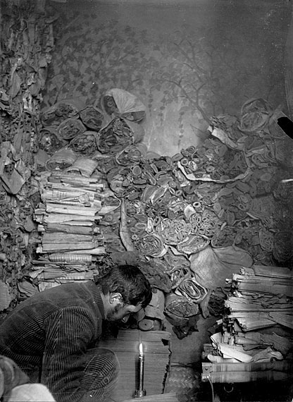 Paul Pelliot. Mogao Caves. Cave 163. Niche of manuscripts.